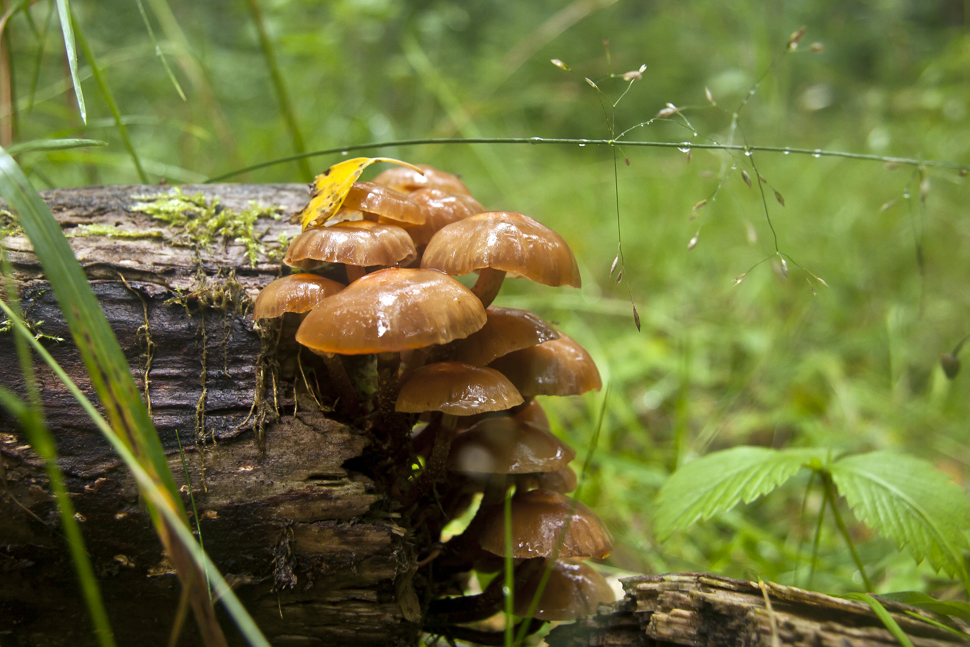 Sheathed Woodtufts in Sweden.